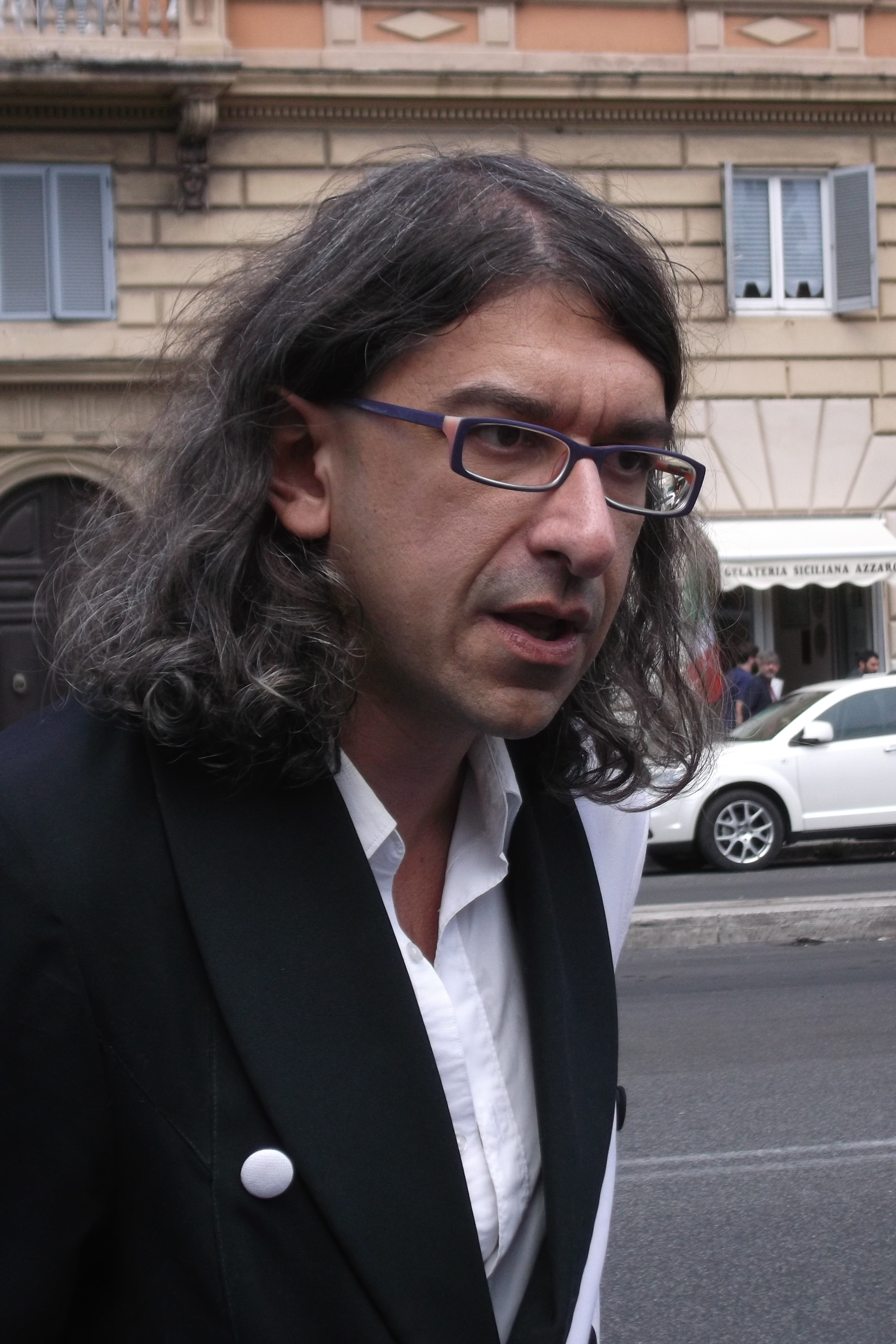 The Italian self-declared “television polluter” Gabriele Paolini photographed during the celebrations of the 145th anniversary of the Capture of Rome